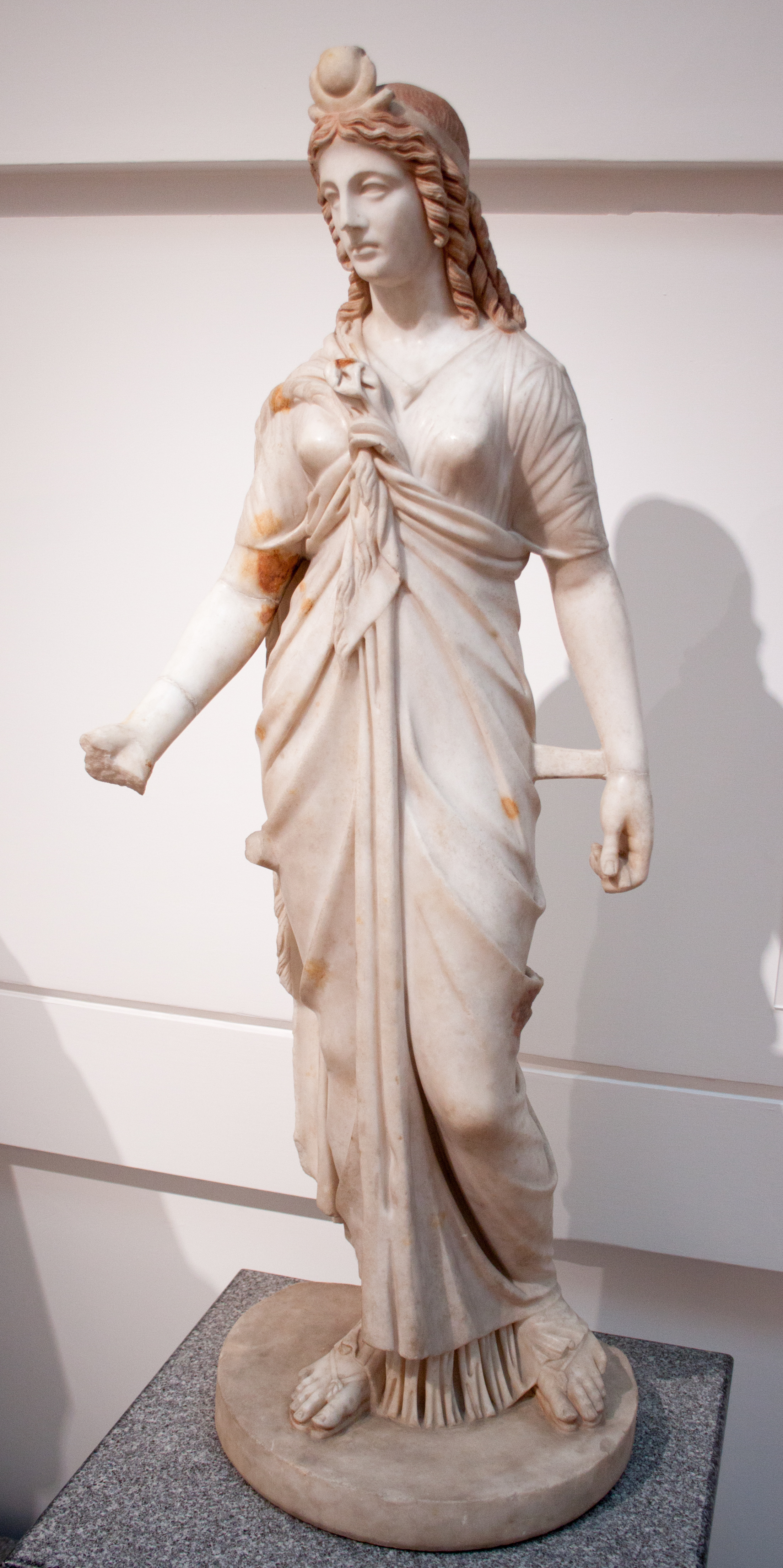 Statue of Isis